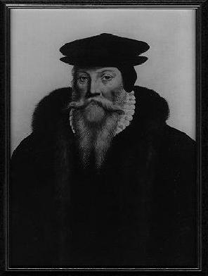 Caspar Peucer, from a lost contemporary oil paining